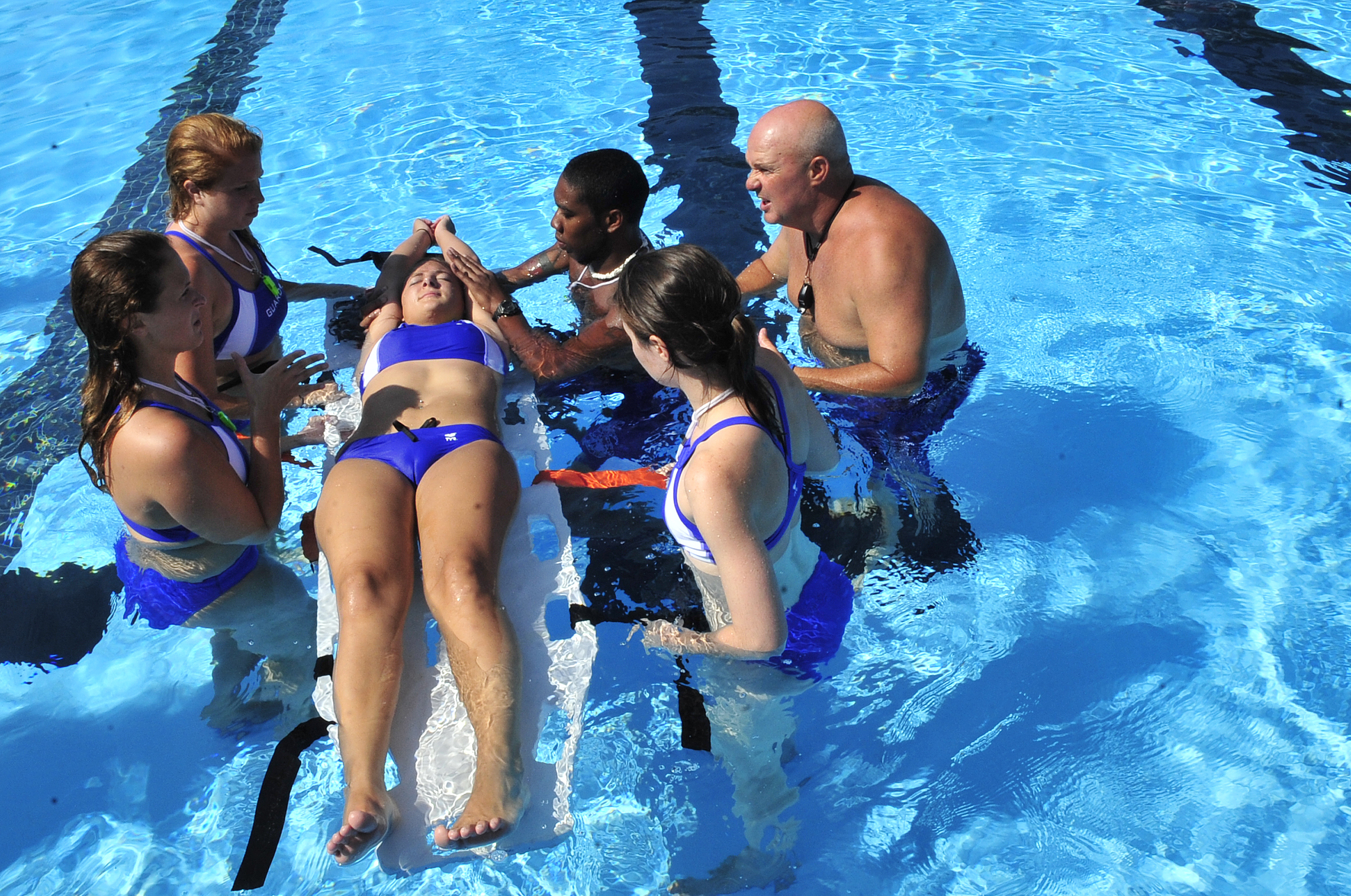 Tim Godwin, 20th Force Support Squadron, director of outdoor activities, instructs an exercise to simulate a spinal injury in the water during a lifeguard in-service emergency training class at the Woodland Pool, Shaw Air Force Base, S.C., May 31, 2012. This exercise was taught with the help of the 20th Medical Operations Squadron. On May 25, the pool opened for the swim season.